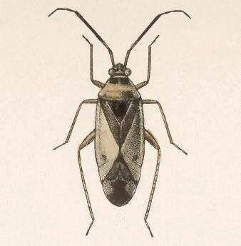 Biologia Centrali-Americana - Proba gracilis Cut-out from original (Biologia Centrali-Americana (8272538892).jpg) shown below